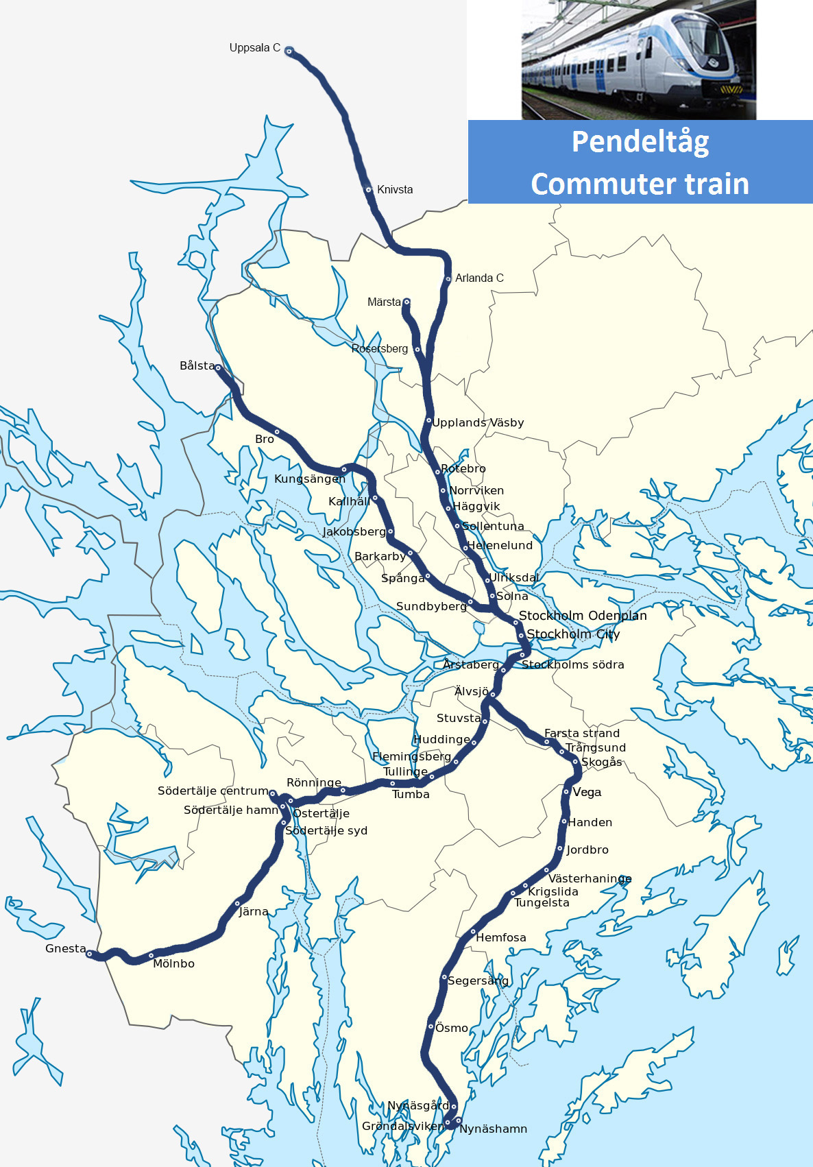 Stockholm commuter train system map